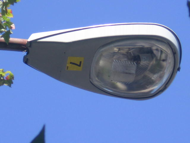 History of street lighting ; CooperOVY (70w variant) HPS